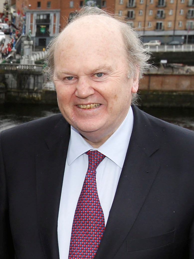 05/04/2014 Michael Noonan TD, Minister for Finance.